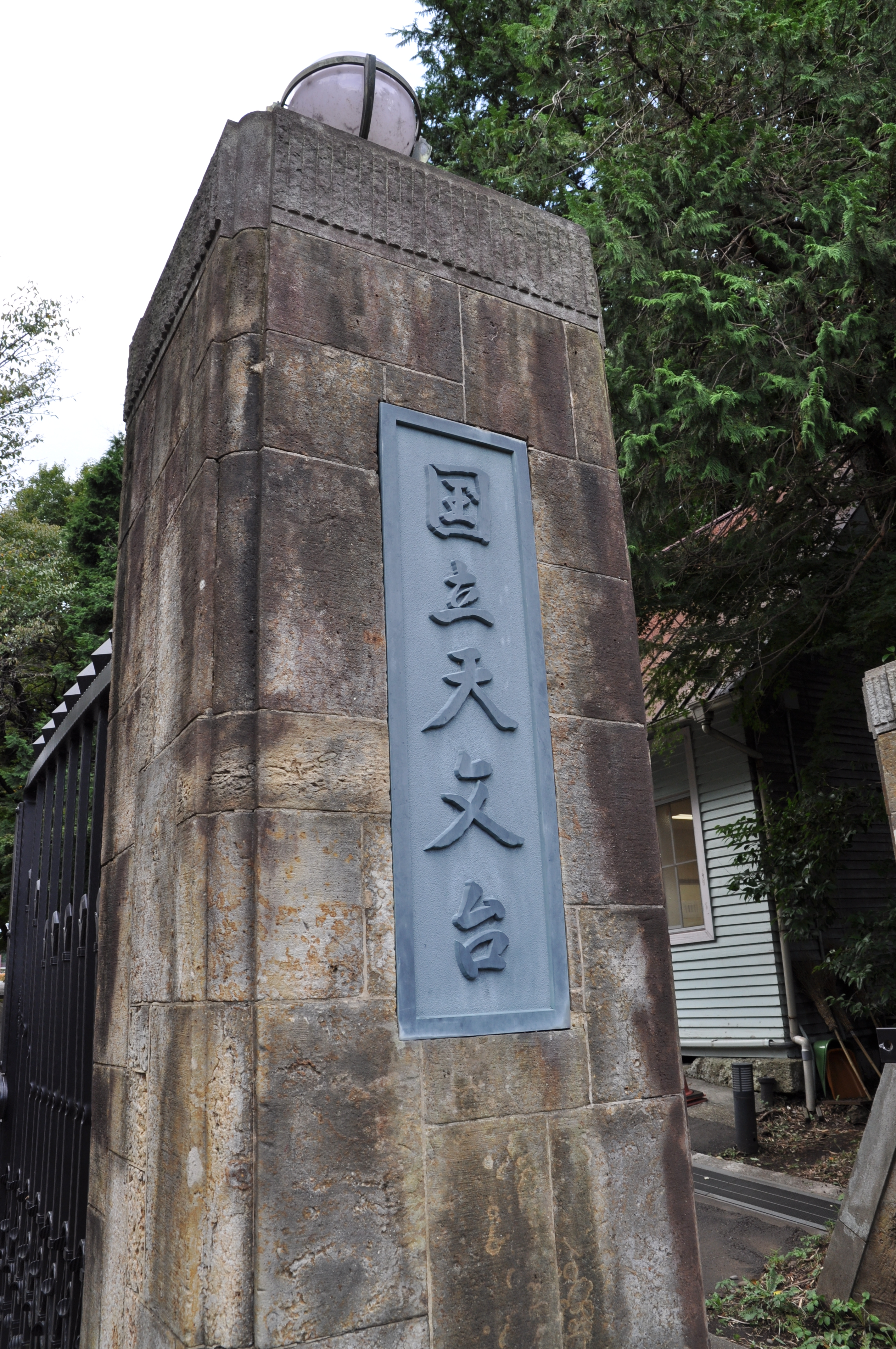 Gate of Mitaka campus, National Astronomical Observatory of Japan.